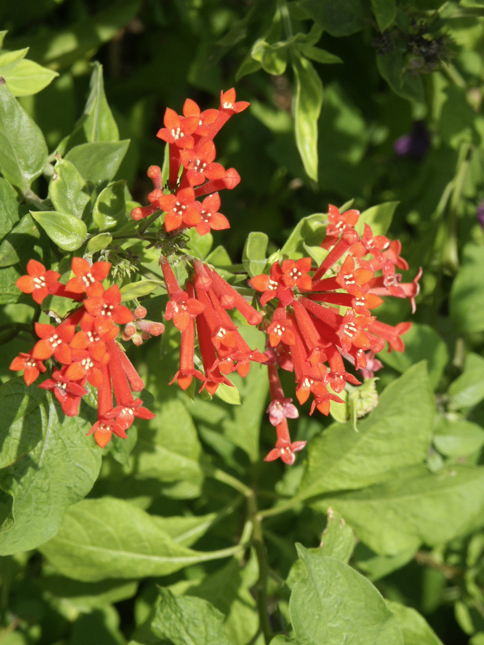 Bouvardia ternifolia, South Miami, FL, USA